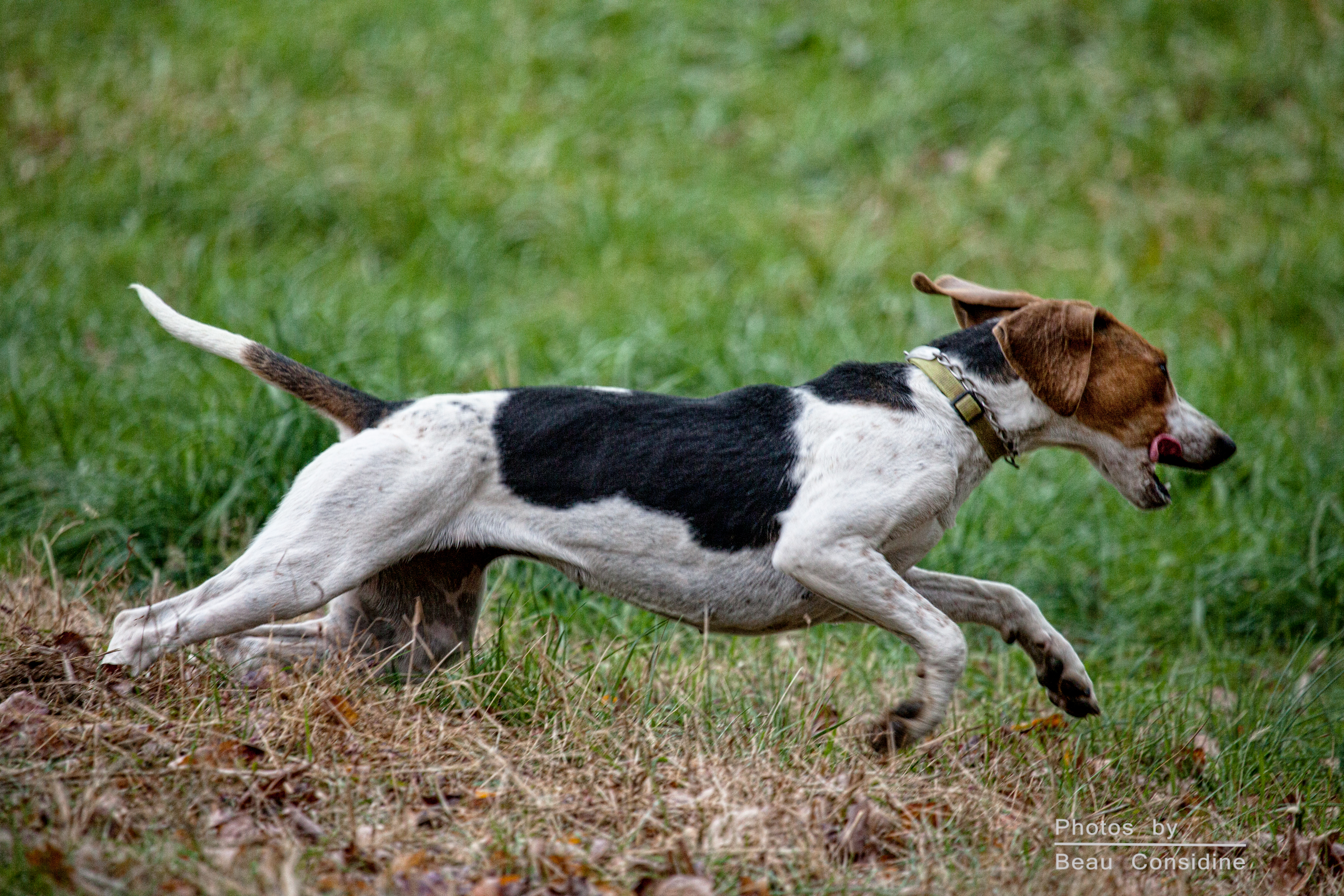 This Penn-Marydel Foxhounds is all warmed up, all stretched out and ready to run...and run... and run. Though they may not be an officially recognized breed, I am not sure about that, I can say for sure that they are wonderful dogs. If you ever read "Where the Red Fern Grows" you will know the special enjoyment of hiking through the woods a listening to the unmistakable sound of hounds on the trail. These dogs have a deep musical call that communicates so much about their pursuit. Unlike many hounds these are very good around people and seem to enjoy interacting with everyone prior to the hunt. They are well behaved when under close control of the Master of the Hounds, but the are at the most enjoyable when they finally get the scent and are off on the chase. These dogs love to run and they can go all day. I wish the same were true for me.